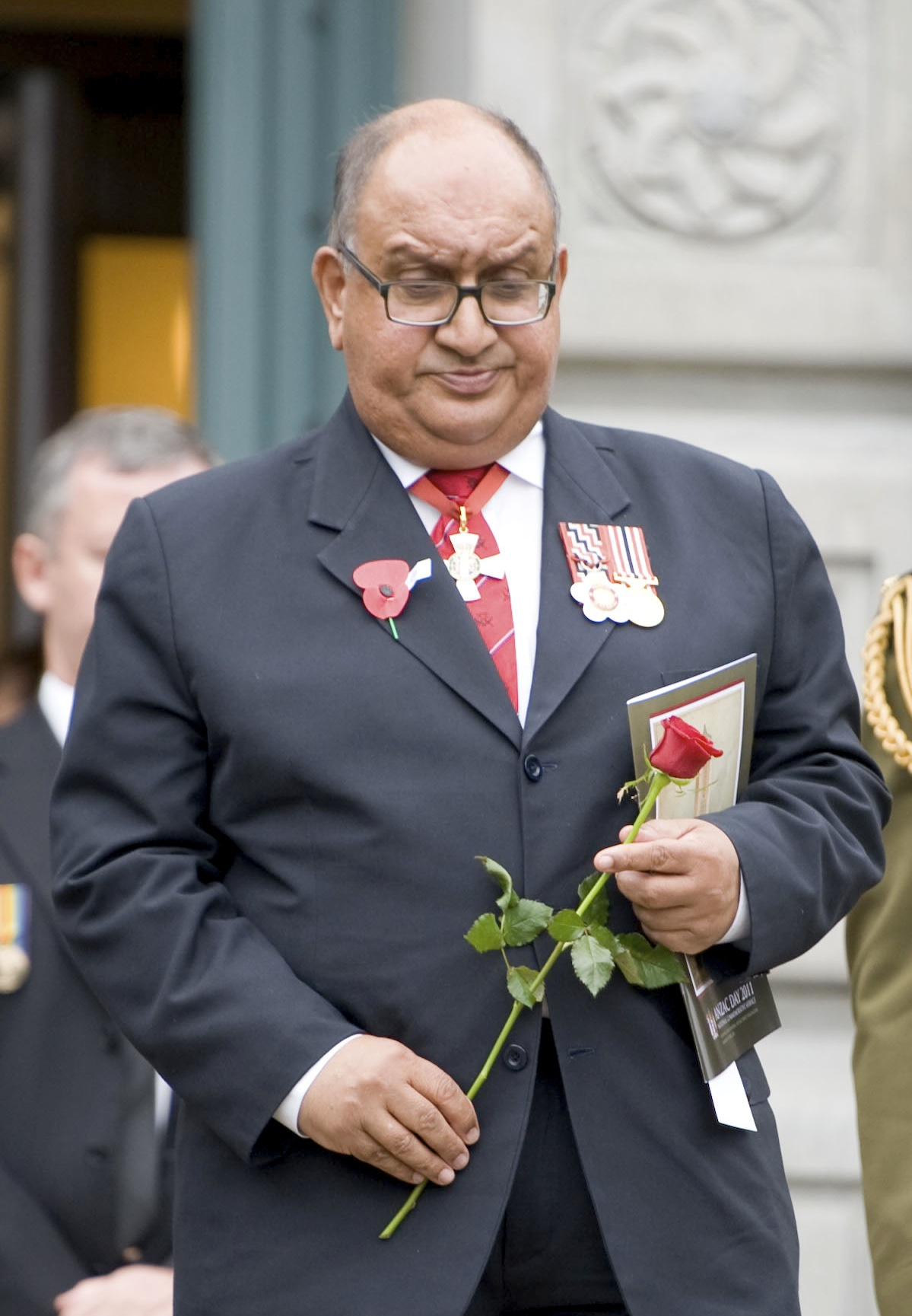 Crop to focus on subject.